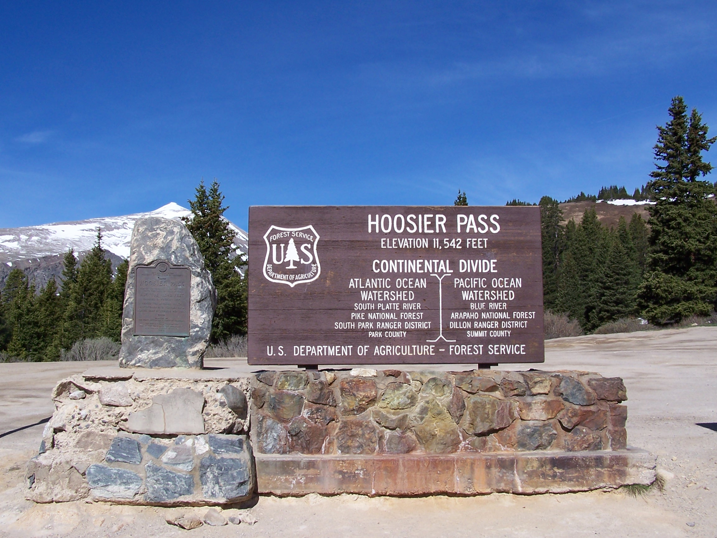 The Hoosier Pass sign, picture taken by Something Original May 29, 2006.